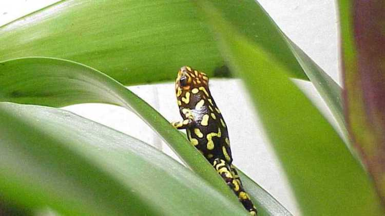 Dendrobates histrionicus